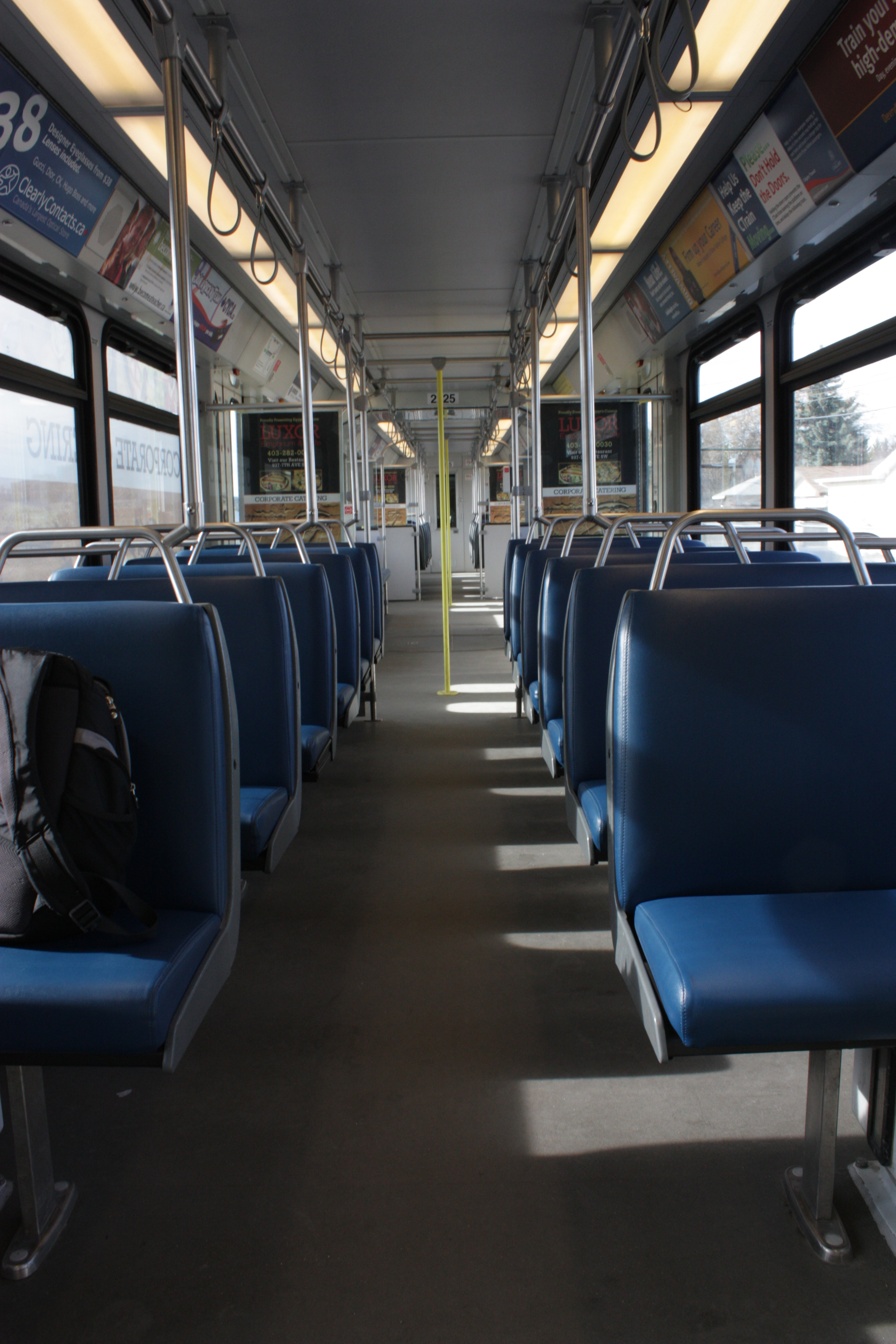 Interior view of a Siemens SD-160 operated by Calgary Transit's C-Train.